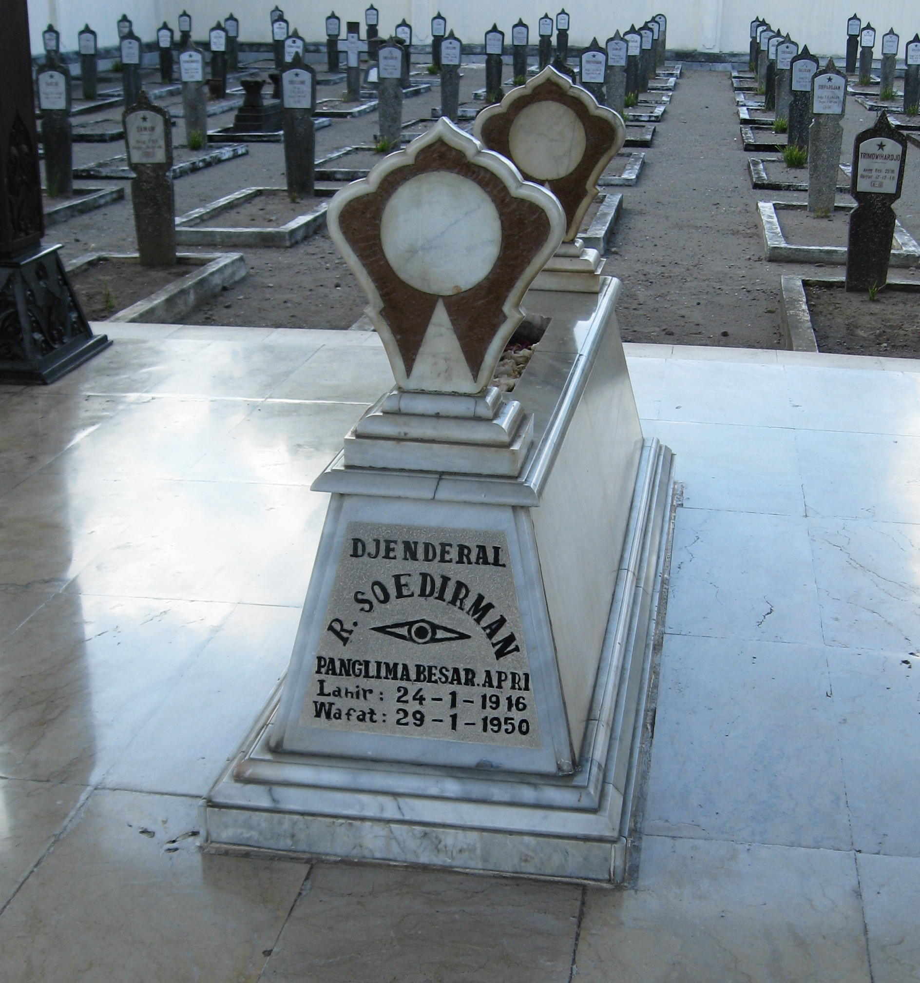 Grave of Indonesian general Sudirman, a National Hero of Indonesia.